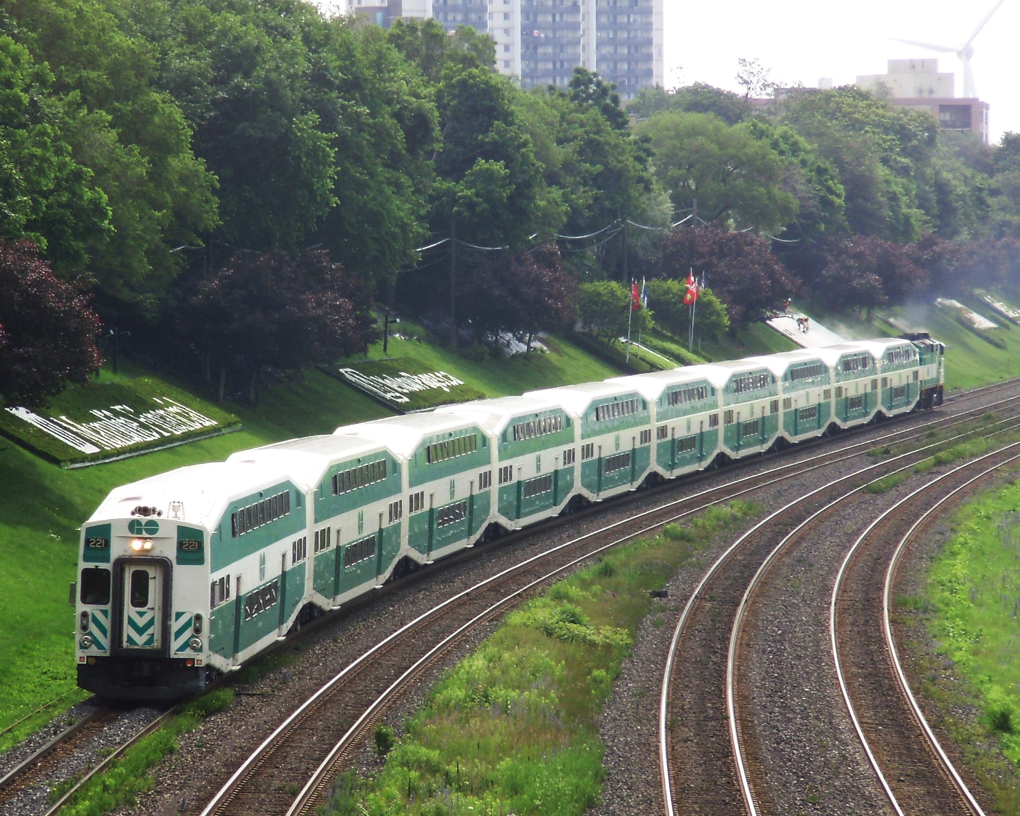 A GO Transit commuter train on the Lakeshore West line in Toronto, Canada, travelling westbound to Burlington. Photograph was taken looking east from the Roncesvalles Avenue pedestrian bridge.